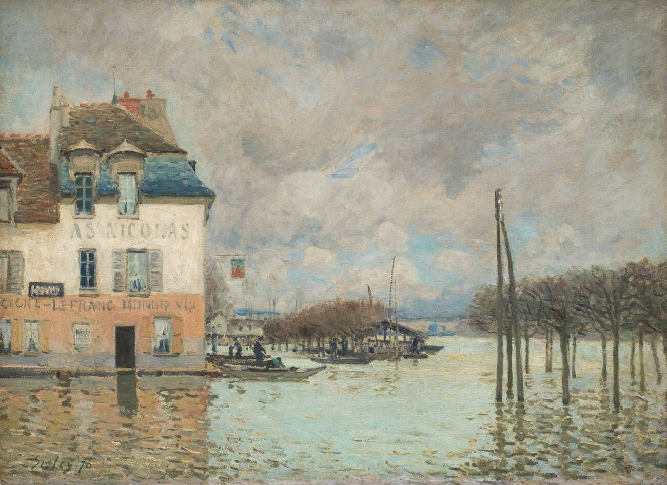 Depicted place: Le Port-Marly